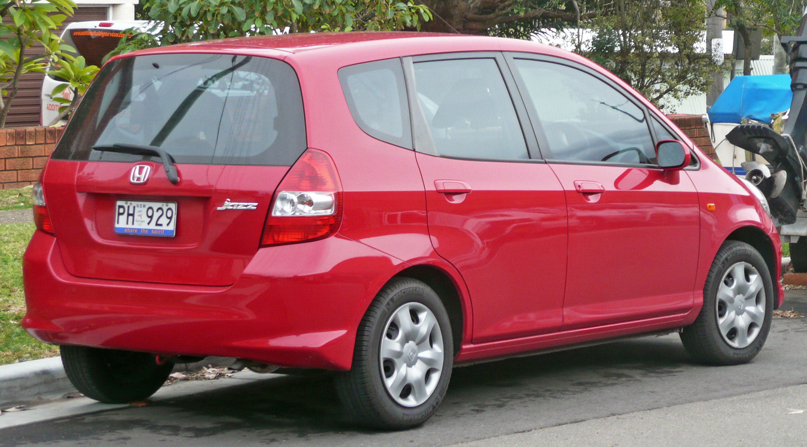 2004–2006 Honda Jazz (GD) hatchback. Photographed in Cronulla, New South Wales, Australia.